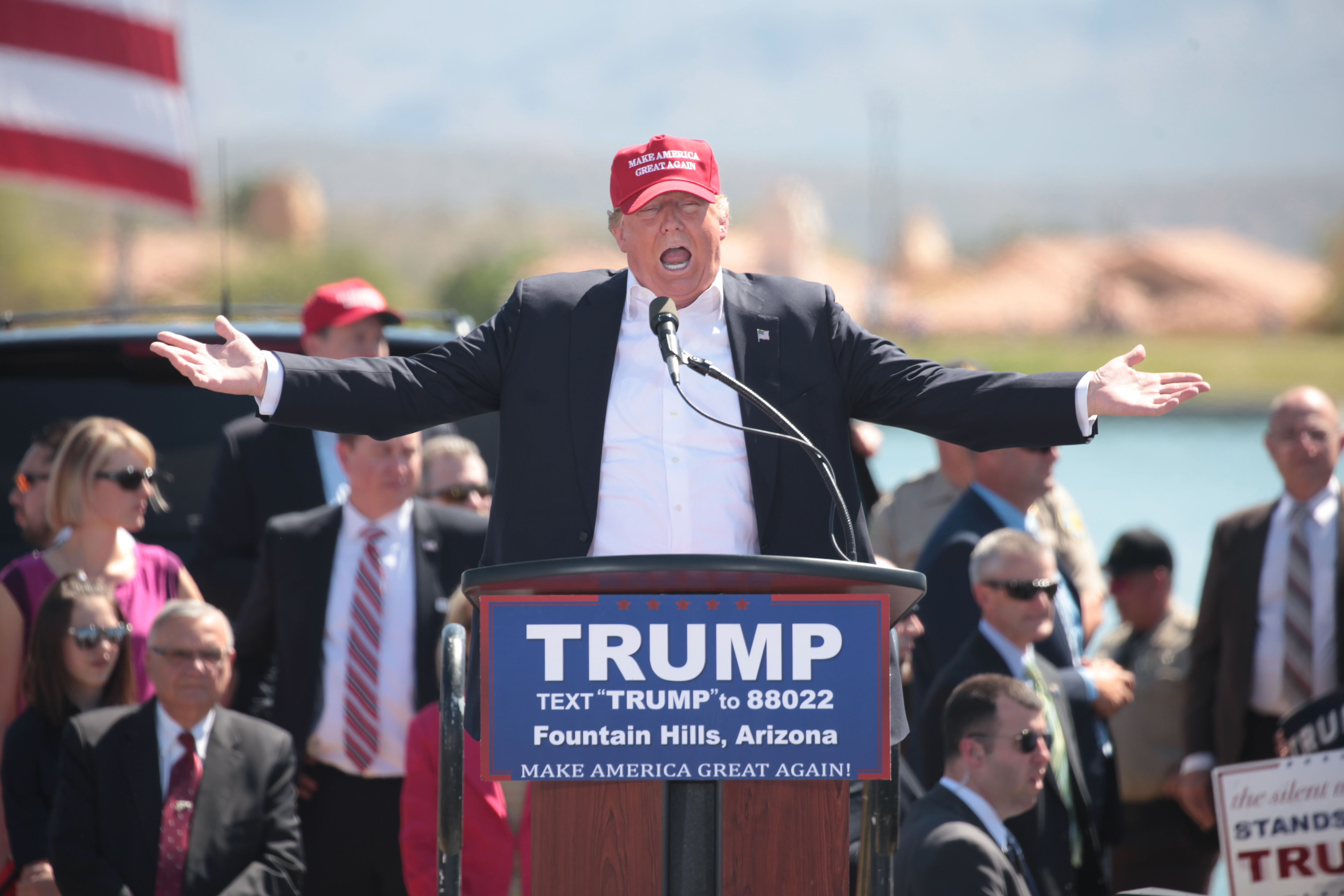 Donald Trump speaking with supporters at a campaign rally at Fountain Park in Fountain Hills, Arizona.